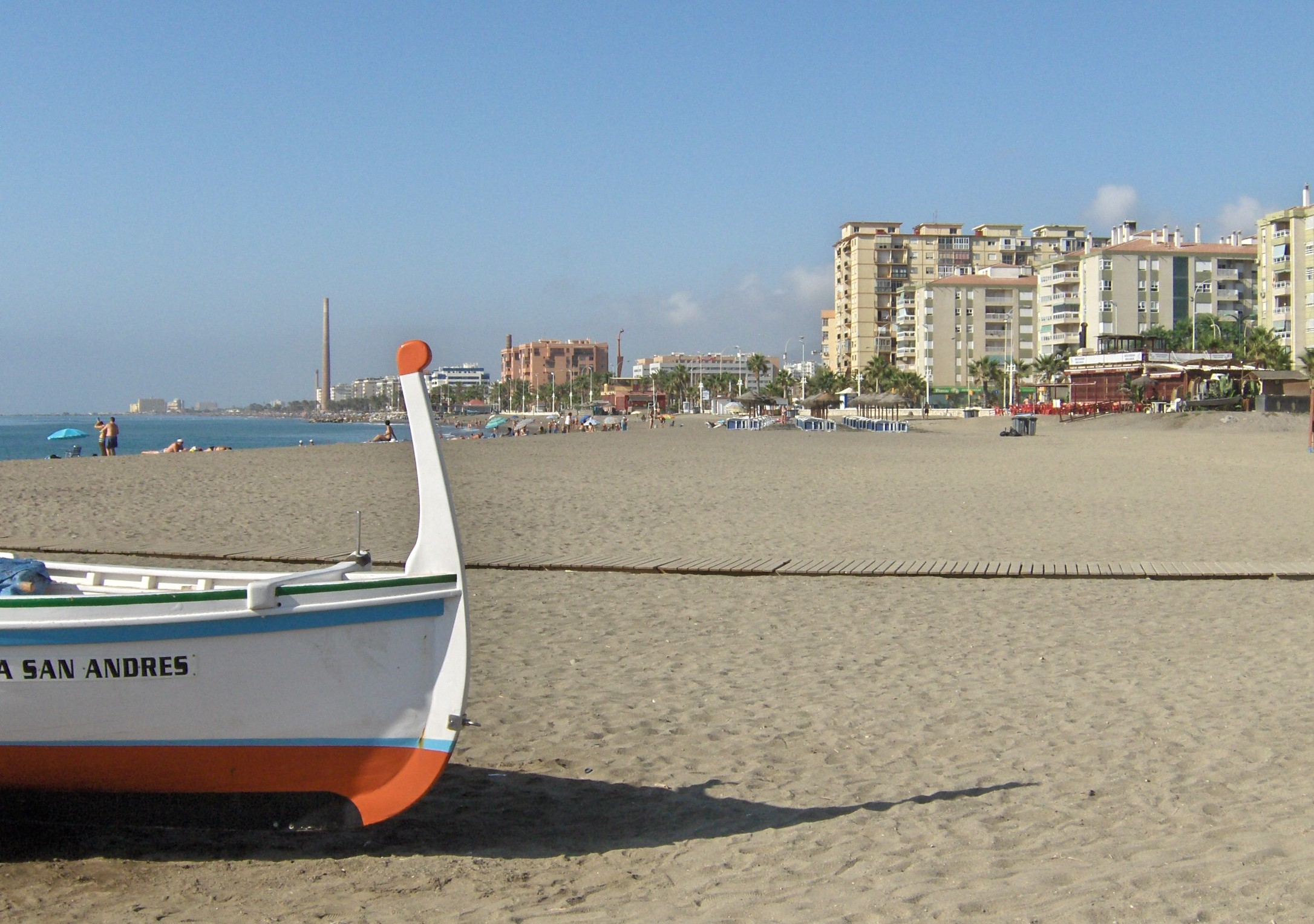 San Andrés Beach, Málaga.